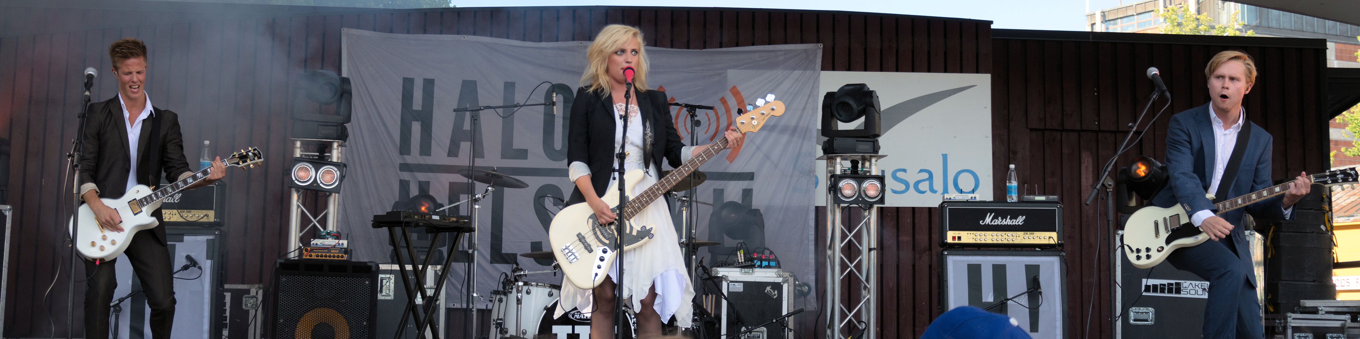 Haloo Helsinki! The group, on the left Jere, in the middle Elli and on the right Leo